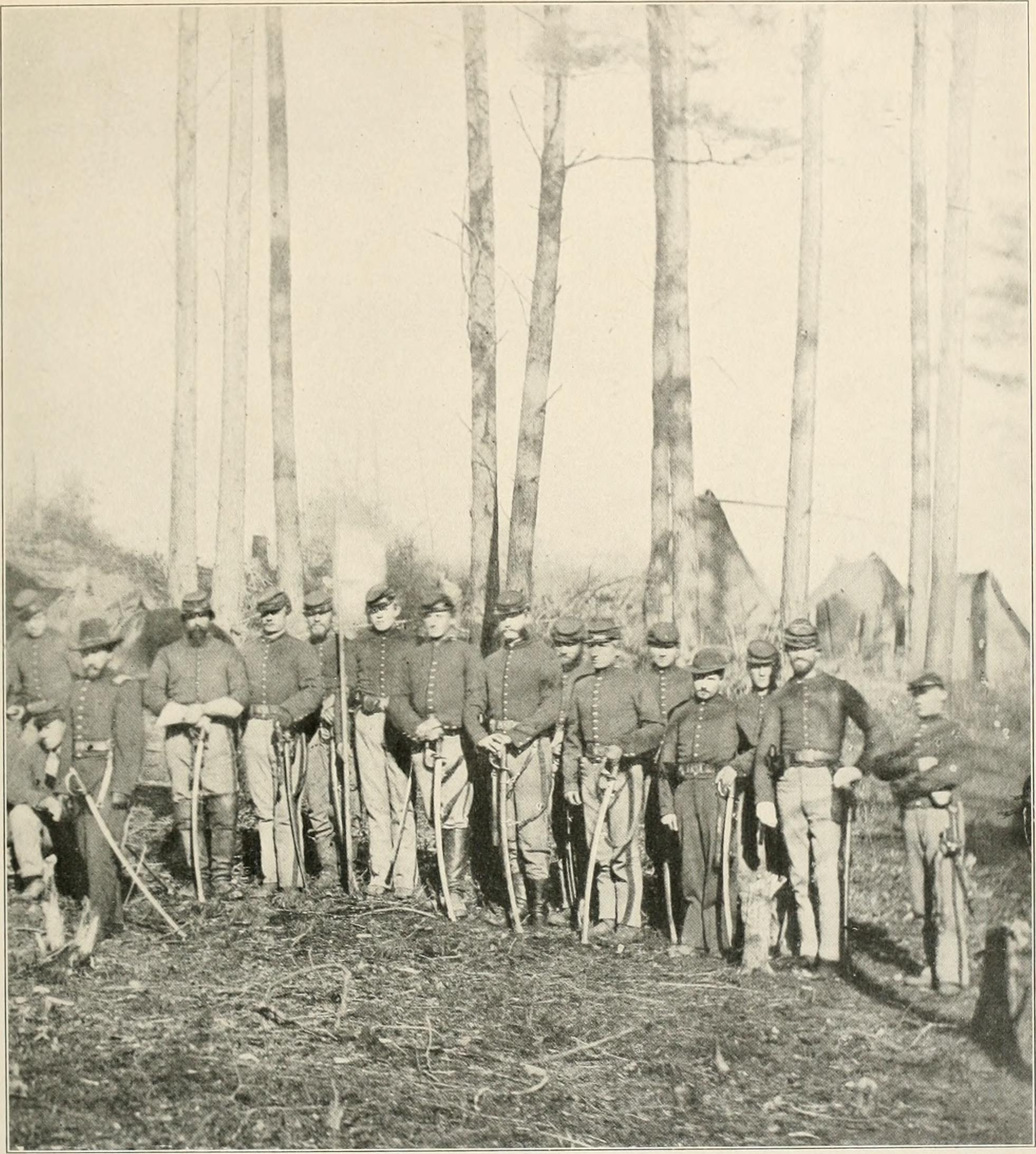 Title: The photographic history of the Civil War : thousands of scenes photographed 1861-65, with text by many special authorities Year: 1911 (1910s) Authors: Miller, Francis Trevelyan, 1877-1959 Lanier, Robert S. (Robert Sampson), 1880- Subjects: United States -- History Civil War, 1861-1865 Pictorial works United States -- History Civil War, 1861-1865 Publisher: New York : Review of Reviews Co. Text Appearing Before Image: ' Text Appearing After Image: COPYRIGHT, 1911, PATRIOT PUB. CO. THE FIRST UNITED STATES REGULAR CAVALRY The sturdy selt-reliaiuc of theso xabreiirs. standing at ease though without a trace of slouchiness, stamps them as the direct successorsof Marion, the Swamp Fox, and of Light-Horse Harry Lee of the War for Independence. The regiment has been in continuousservice from 1833 to the present day. Organized as the First Dragoons and sent to the southwest to watch the Pawnees and Comanchesat the time it began its existence, the regiment had its name clianged to the First United States Regular Cavalry on July 27, 1801, whenMcClellan assumed command of the Eastern army. This photograph was taken at Brandy Station in February, 1864. The regimentat tliis time was attached to the Reserve Brigade under General Wesley Merritt. The troopers took part in the first battle of Bull Run,were at the siege of Yorktown, fought at Gaines Mill and Beverly Ford, served under Merritt on the right at Gettysburg, and did theirduty at Yello